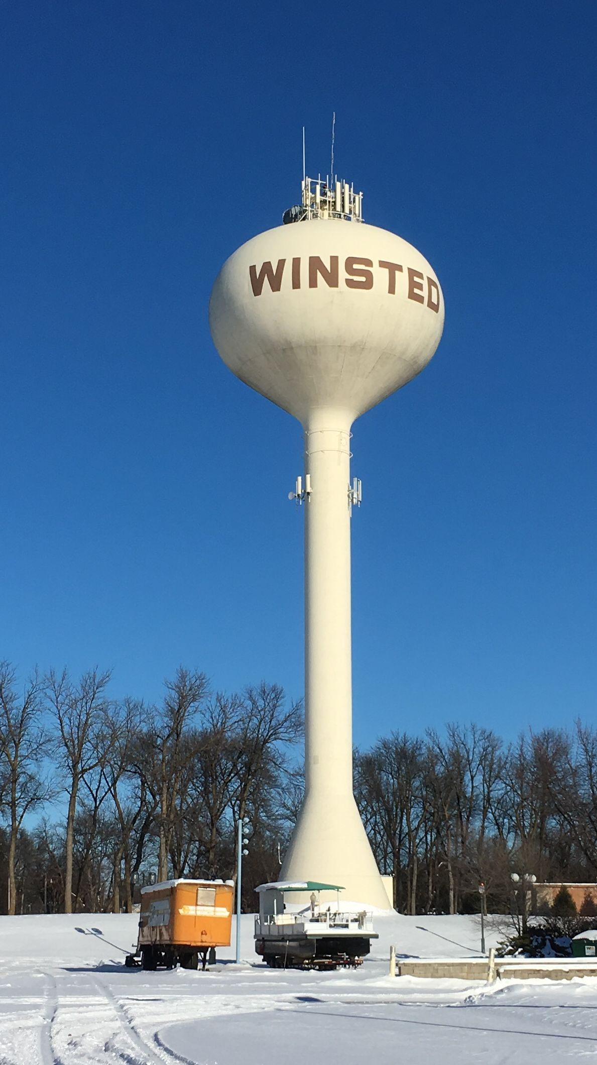 water tower in Winstead, MN, taken facing north